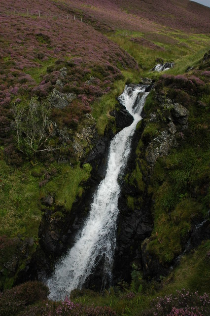 Whitewater Dash Viewed here is only the upper part of Dash Falls or Whitewater Dash, they are beside the Skiddaw House Road and are among the most impressive in the region.